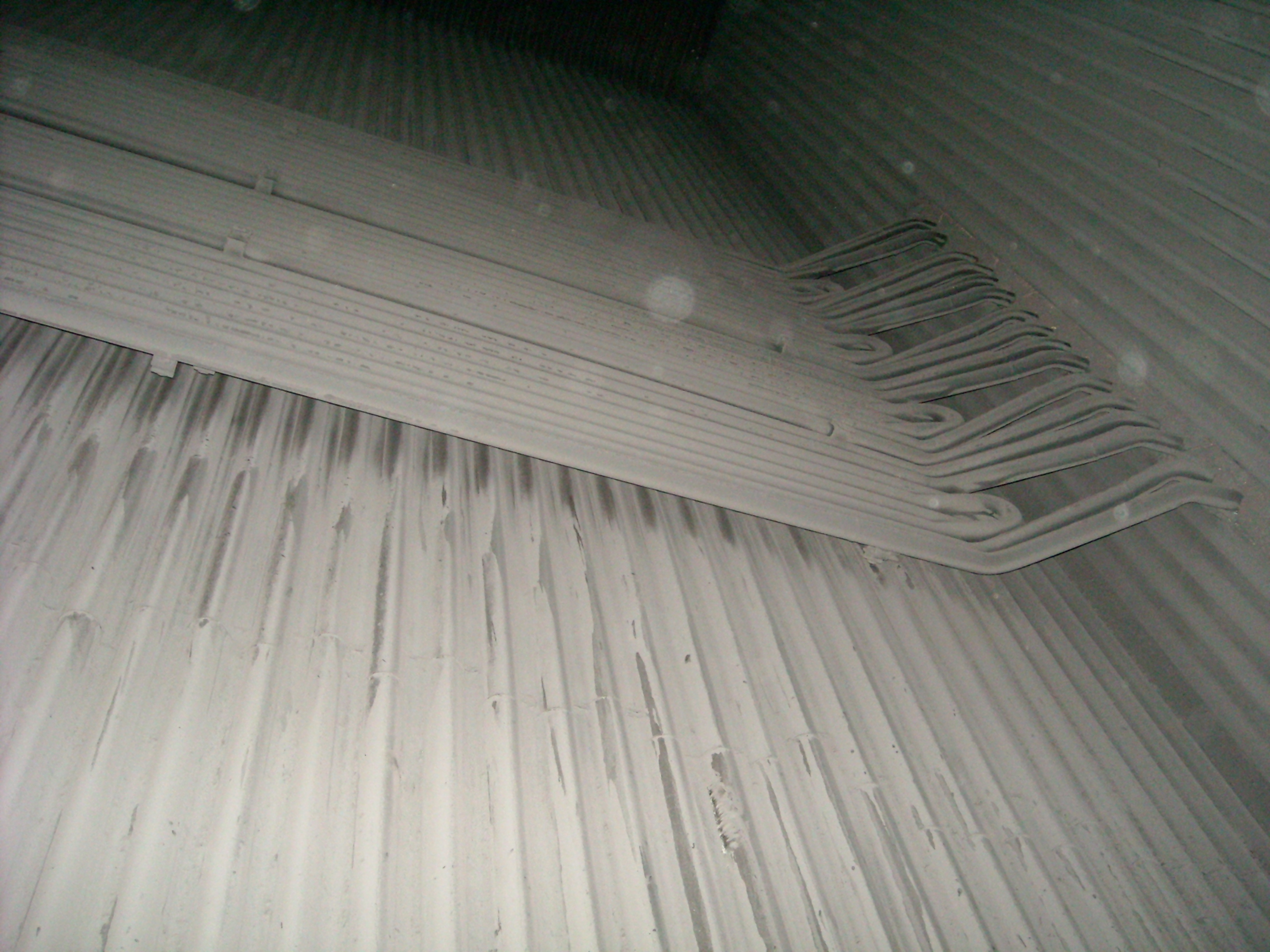 Superheater within a 30 t/h boiler furnace, coal firing.